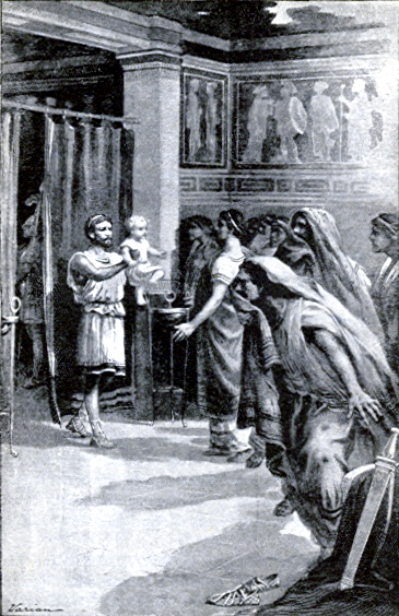 Elementary history of Greece, made up principally of stories about persons, givingat the same time a clear idea of the most important events in the ancient world and calculated to enforce the lessons of perseverance, courage, patriotism, and virtue that are taught by the noble lives described. Beginning with the legends of Jason, Theseus, and events surrounding the Trojan War, the narrative moves on to present the contrasting city-states of Sparta and Athens, the war against Persia,their conflicts with each other, the feats of Alexander the Great, and annexation by Rome.